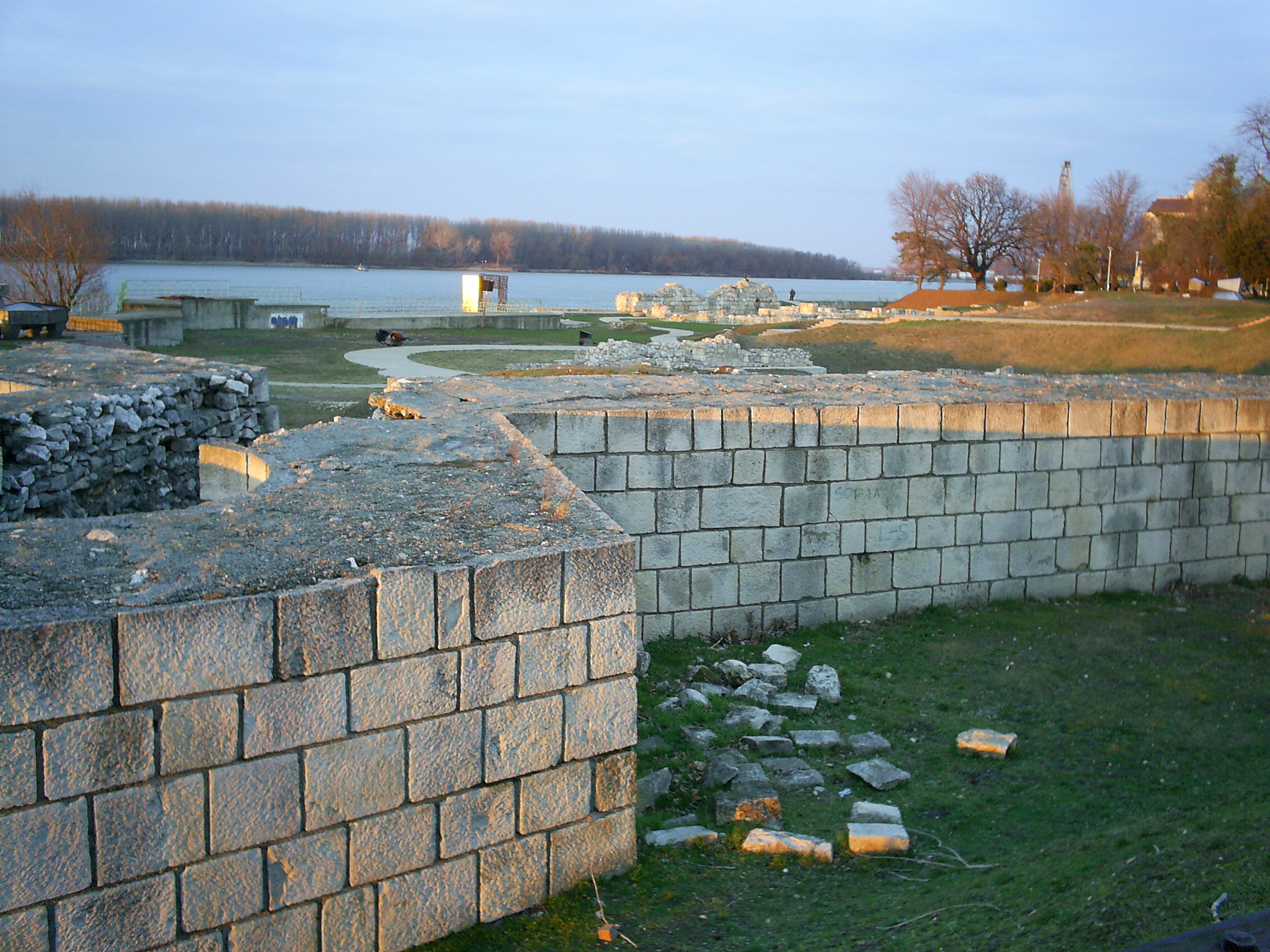 The fortress walls of ancient town of Durostorum, Bulgaria